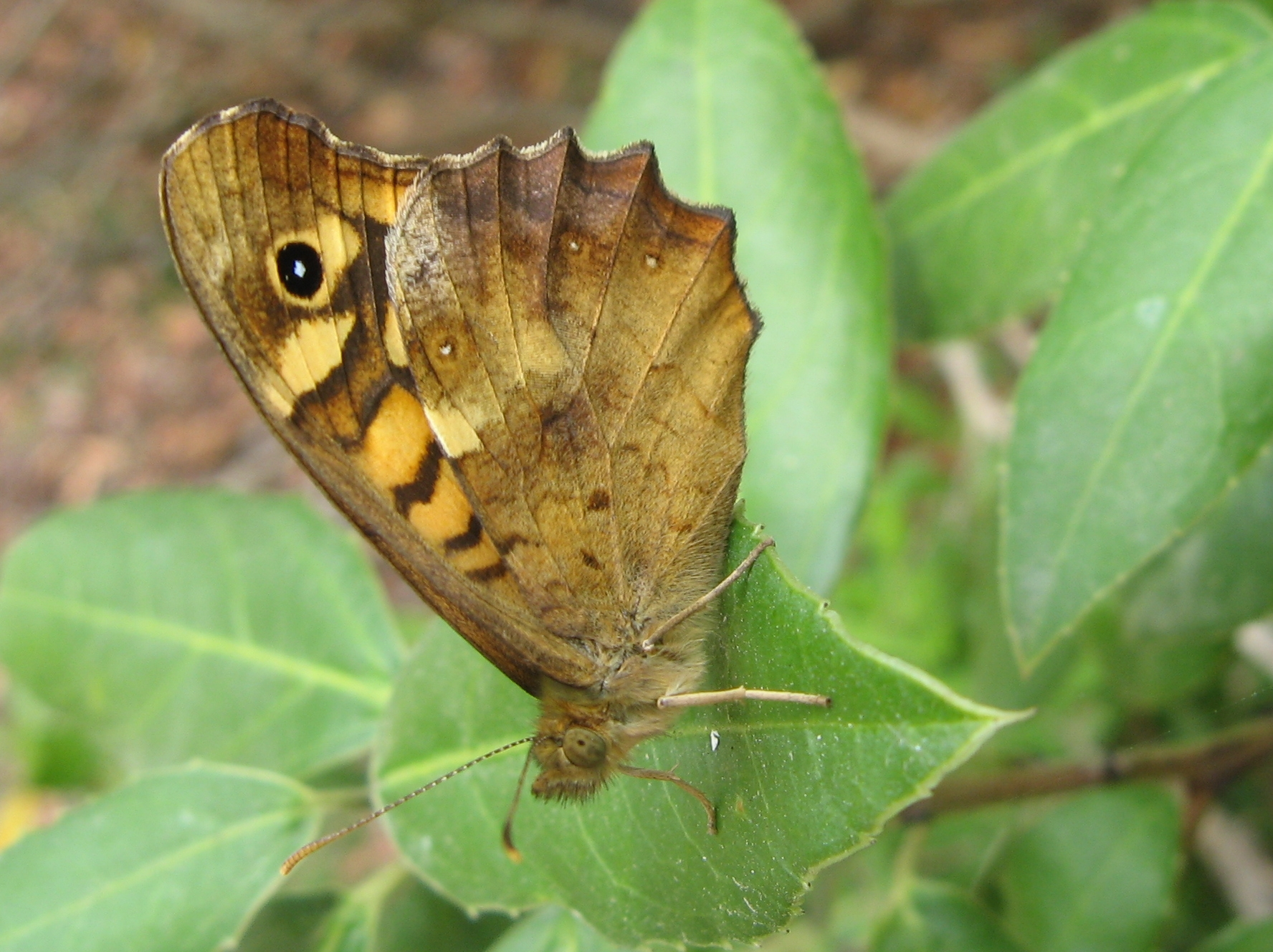 Speckled wood butterfly on Menorca, July 2009